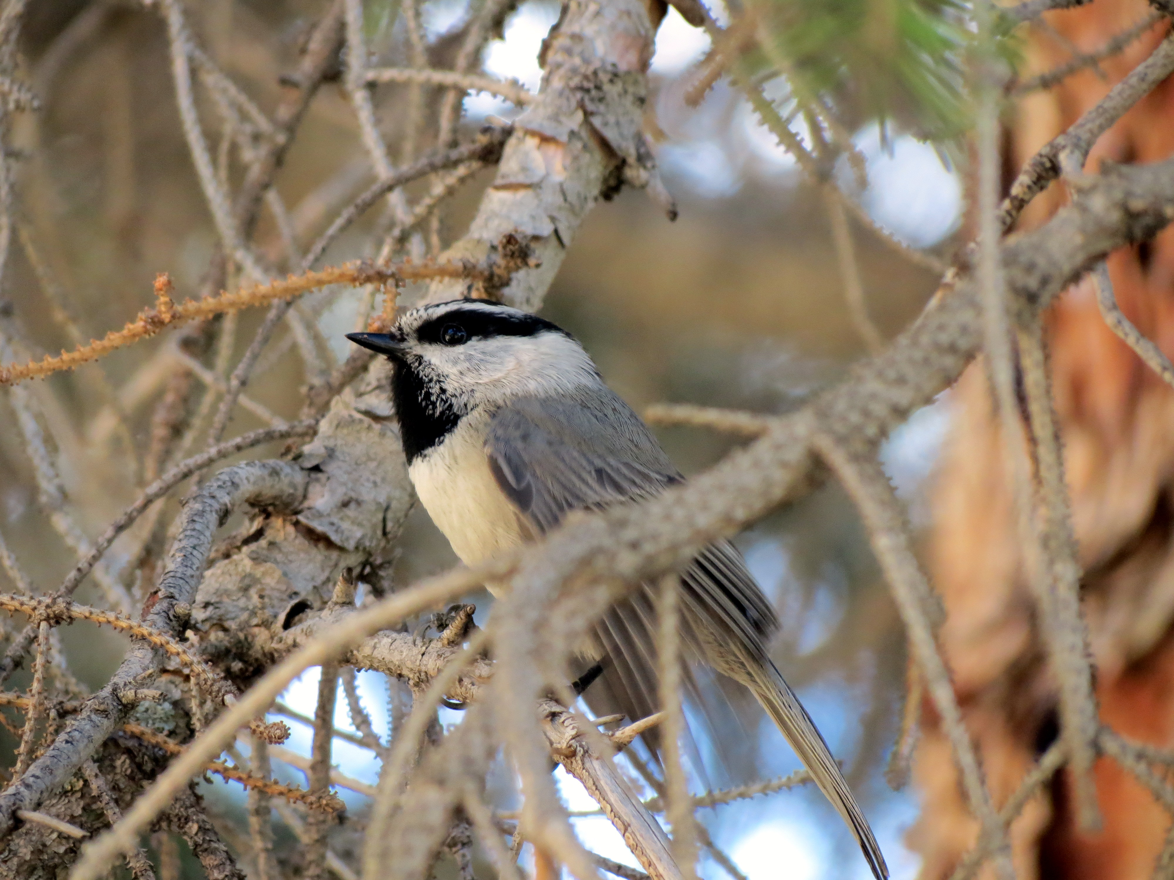 Poecile gambeli gambeli, Rocky Mountain NP, Larimer County, Colorado